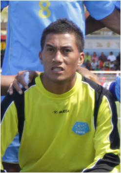 Katepu_Sieni 02